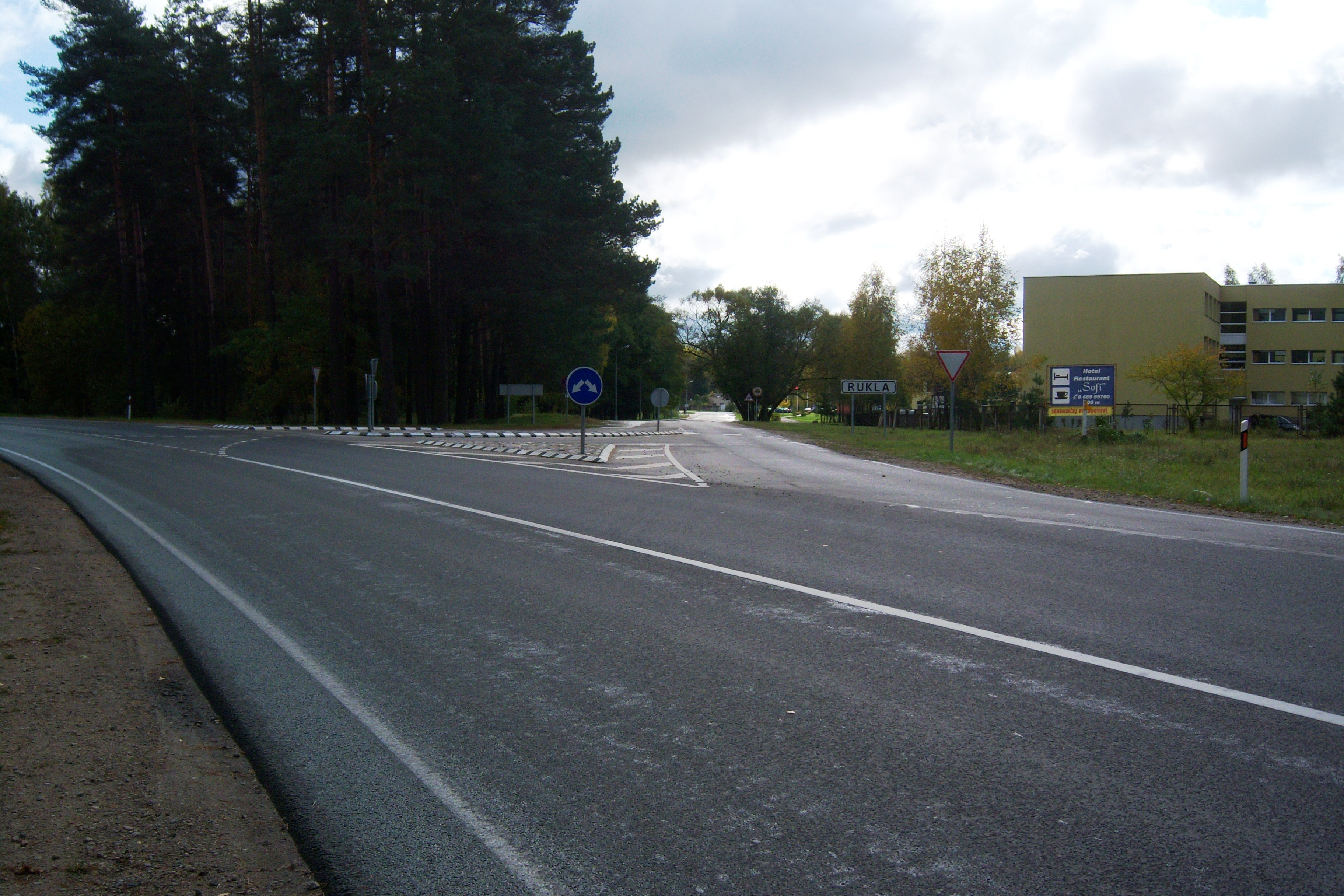 Road No.143 Jonava-Elektrėnai, by Rukla, Lithuania